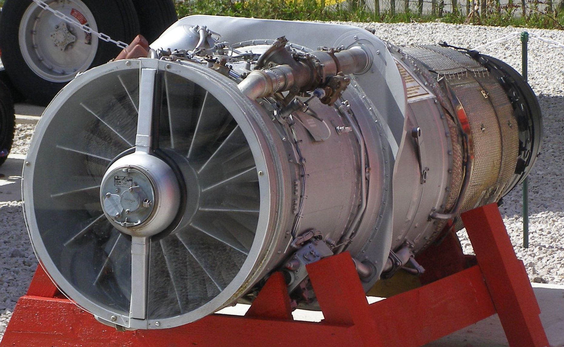 Rolls-Royce RB.162 turbojet used as an auxiliary boost engine on the Hawker Siddeley Trident. On display at Manchester Airport, England next to preserved Trident G-AWZK. Engine owned by Neil Lomax.